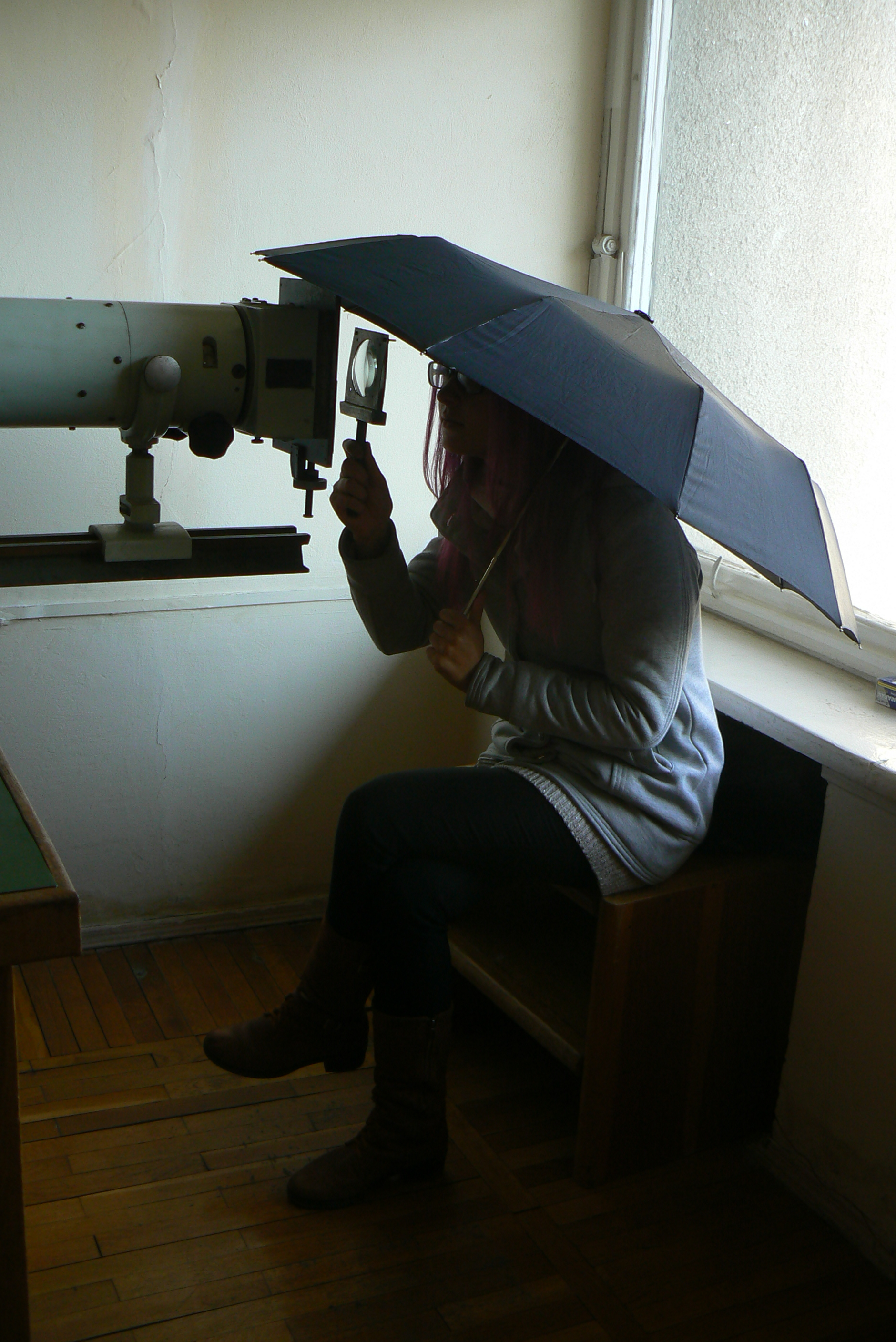 A 3-rd year student of the Faculty of Physics (Taras Shevchenko National University of Kyiv) observes Zeeman Effect. Zeeman Effect is a splitting of the spectral lines in the presence of a magnetic field. The umbrella is used to reduce the light from the window; the lens is used for better visual observation of the resulting interference image.